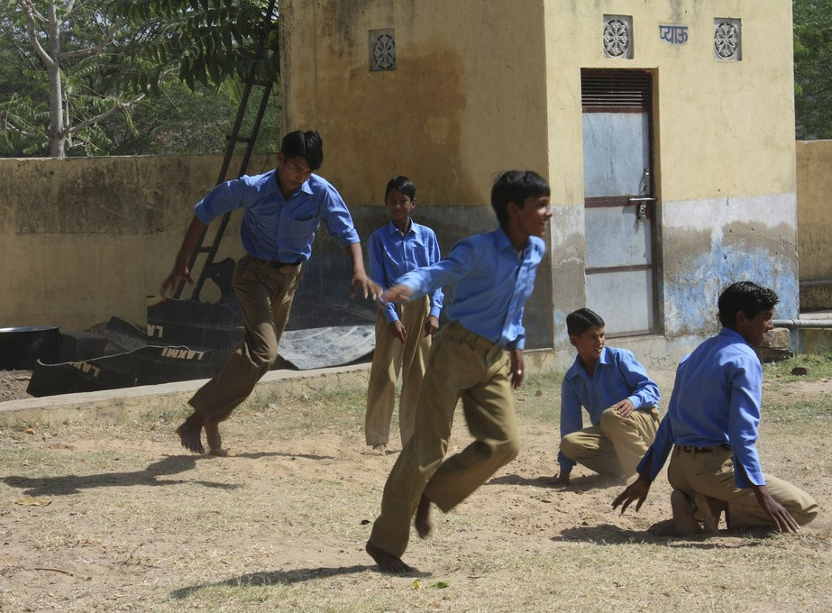 Kho-kho game in a Government School, Haryana, India. (This image file is mislabeled "Kabaddi.")